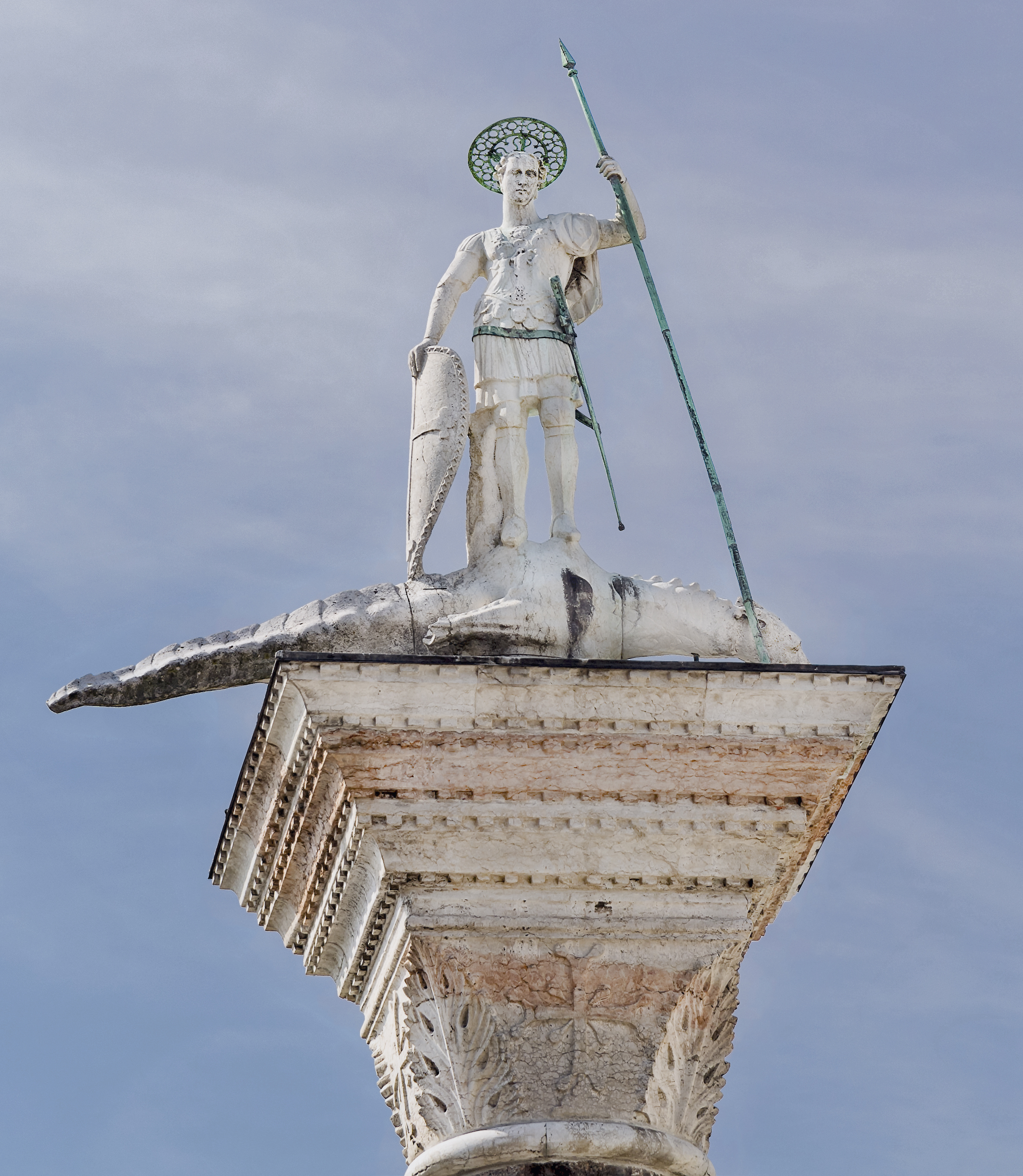 Statue of St.Theodore in Piazzetta San Marco in Venice